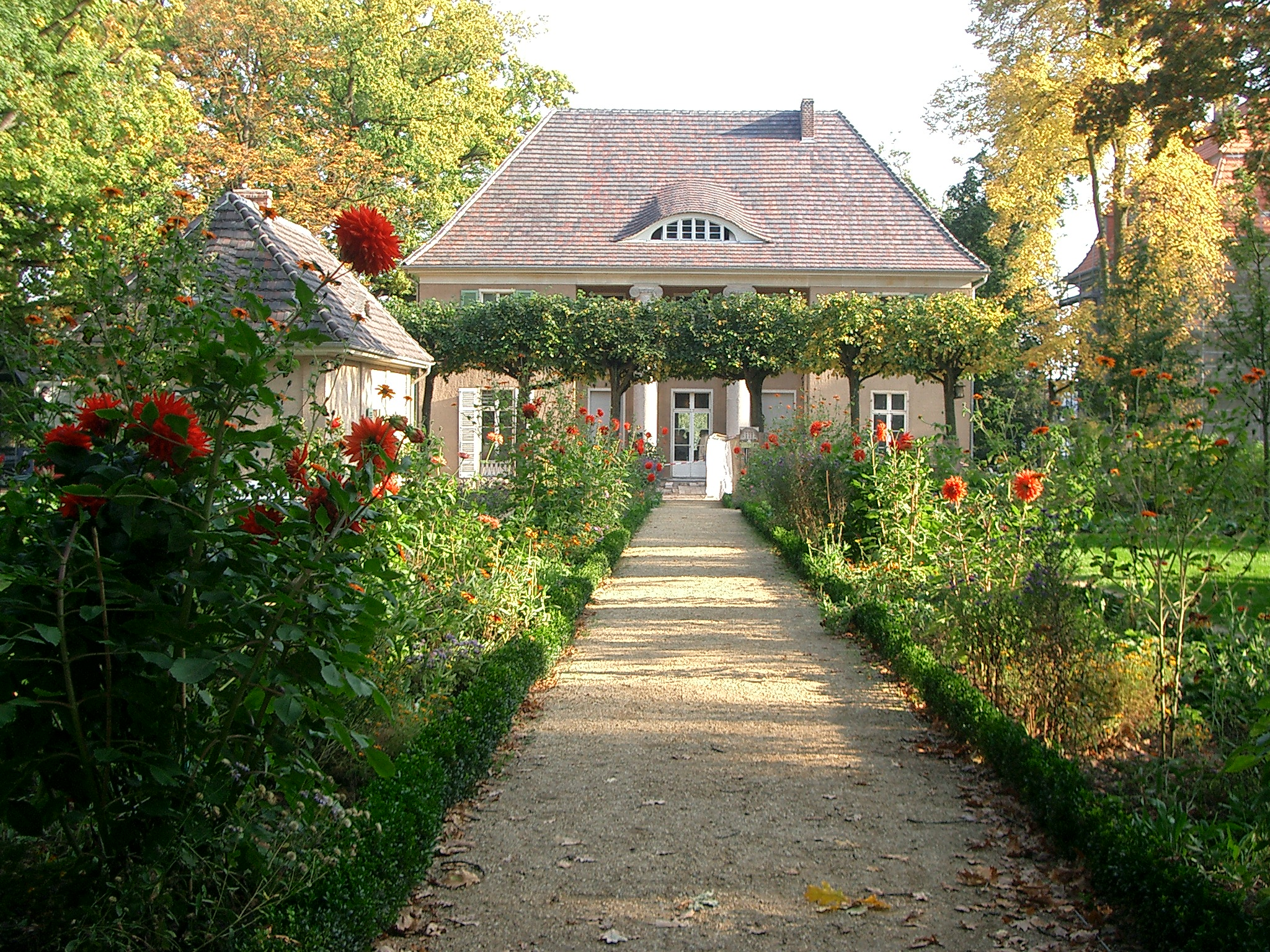 A landscape avenue defined by low perennials, in the Max Liebermann Villa gardens in Berlin, Germany.